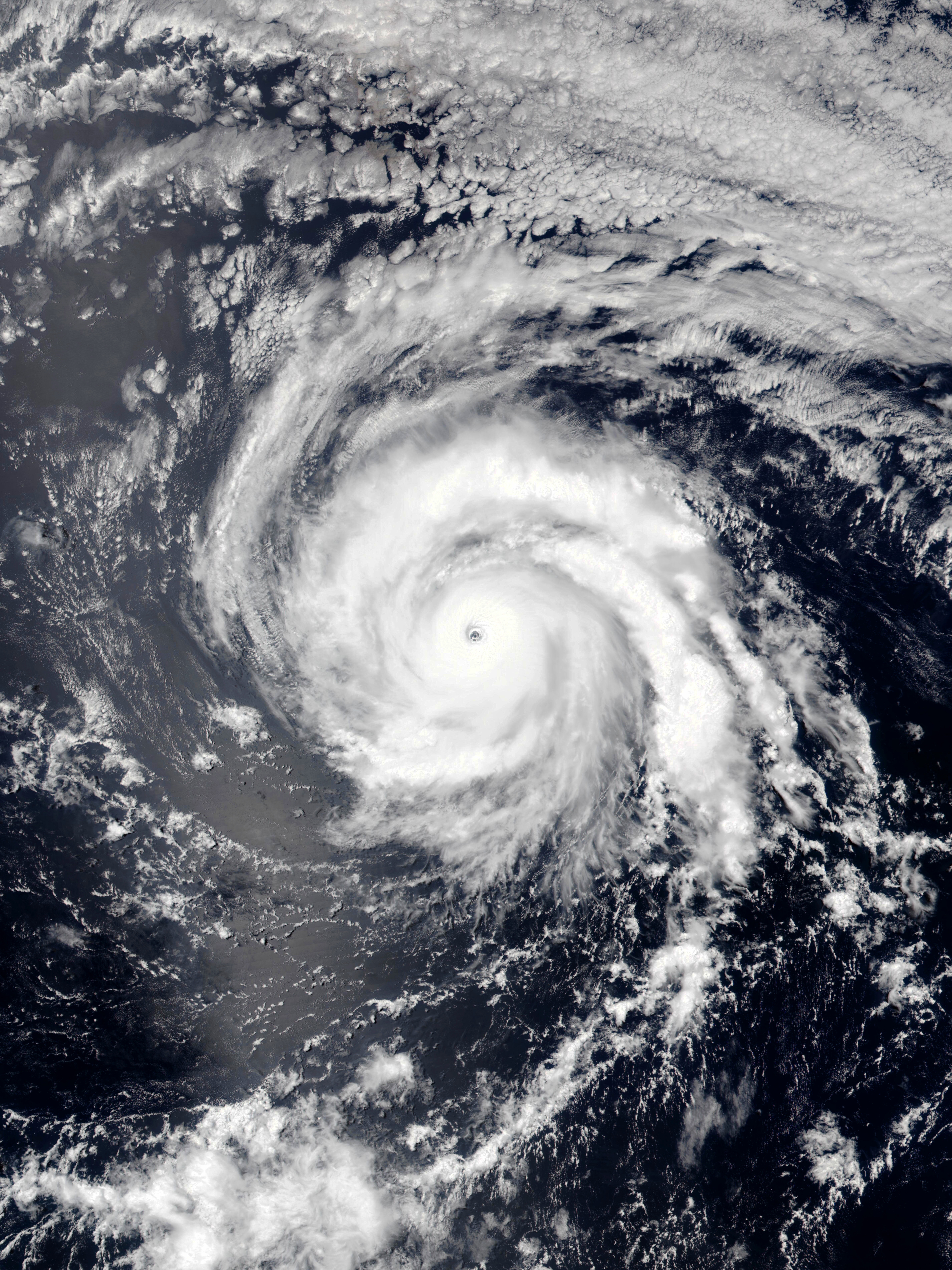 Hurricane Douglas over the Northeastern Pacific Ocean on July 23, 2020